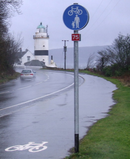 National Cycle Network Route 75 This path at Cloch Road was recently converted to joint cycle path and footpath use. This is close to the west end of route 75 which currently stops at Lunderston bay.